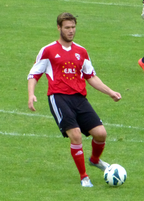 Kevin Sandwith playing for AFC Wulfrunians in September 2014